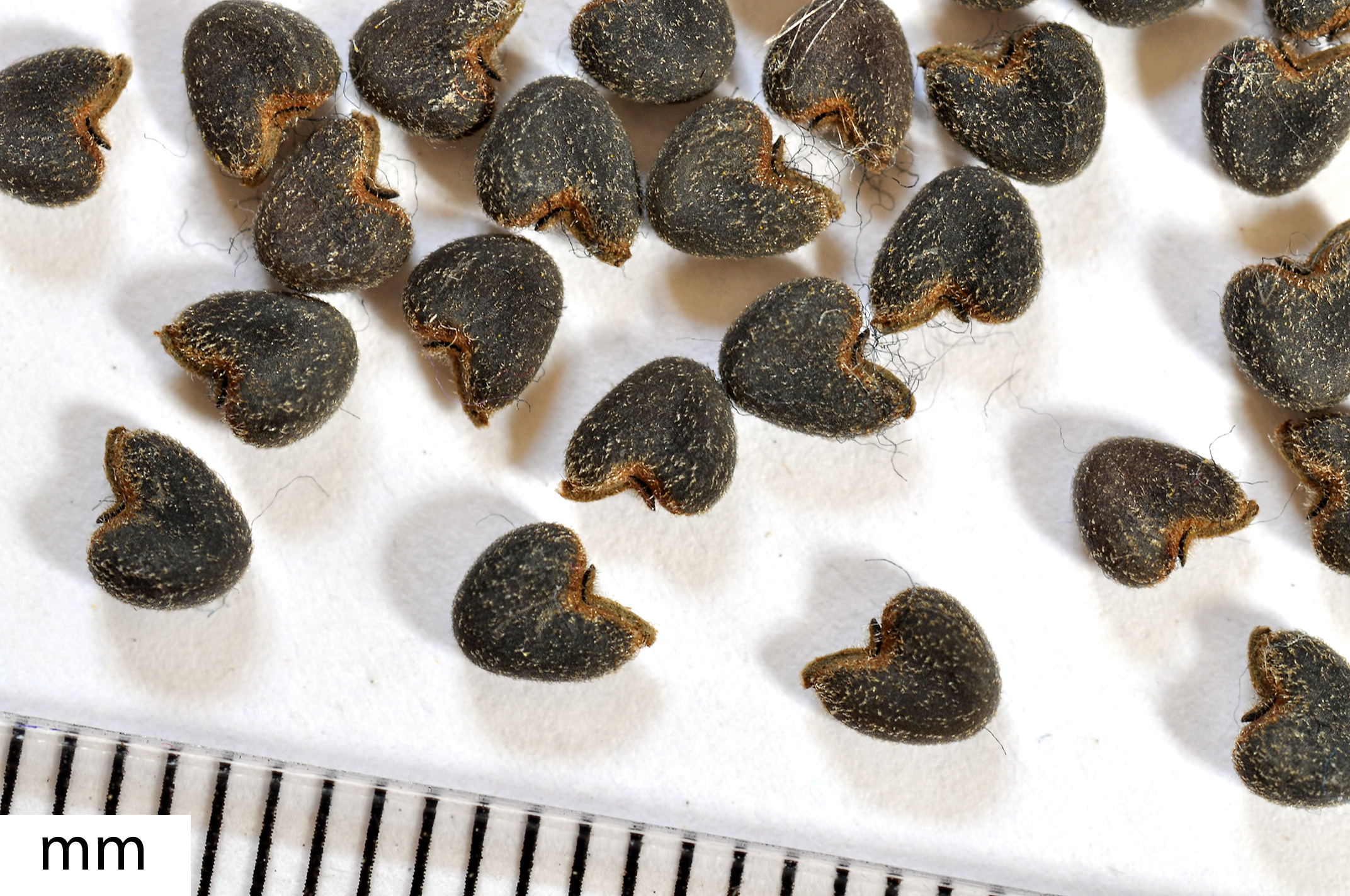 Velvetleaf, China Jute, Buttonweed, Butterprint, Pie-marker or Indian Mallow